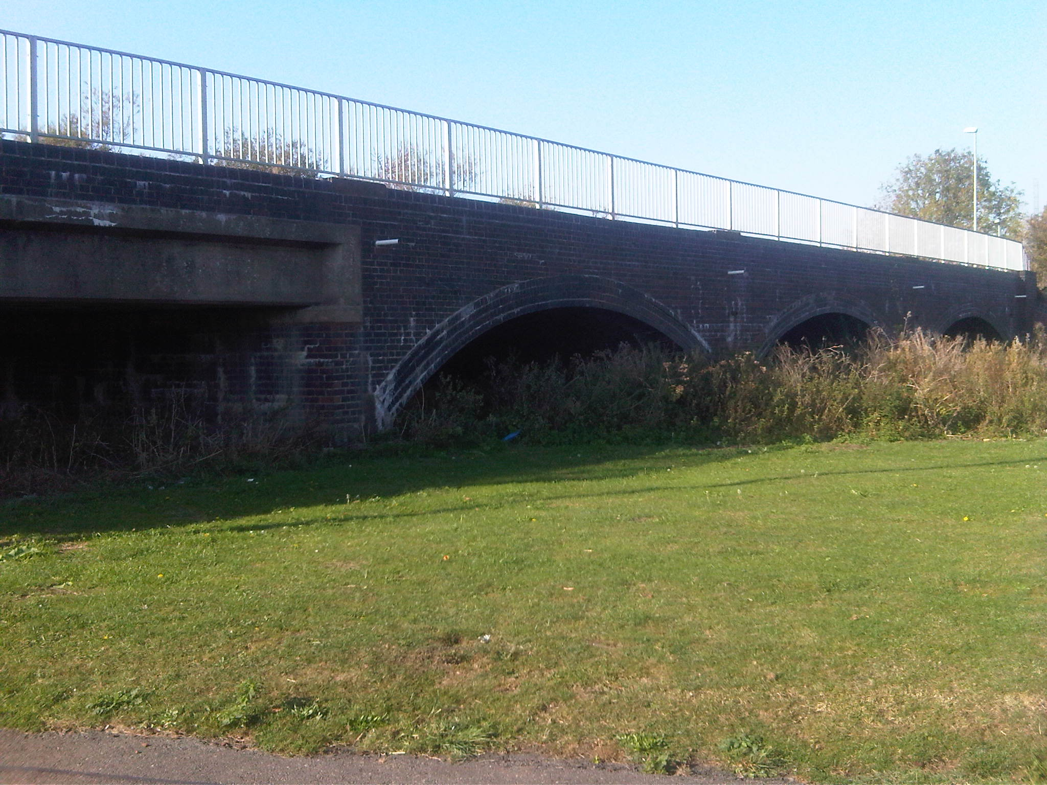 A photograph of Wellingborough London Road station.